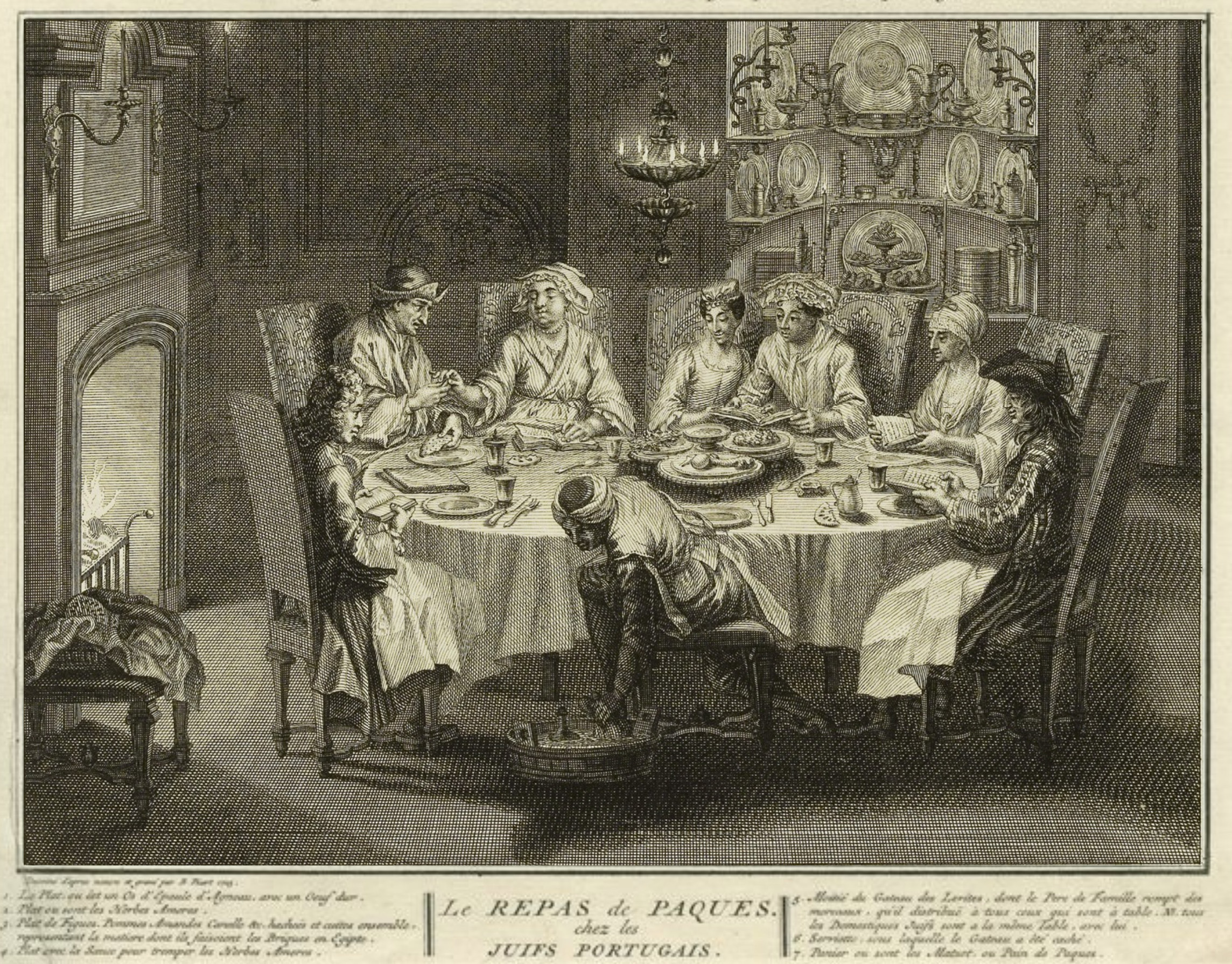 The Passover Seder of the Portuguese Jews, from "The Ceremonies and Religious Customs of the Various Nations of the Known World"